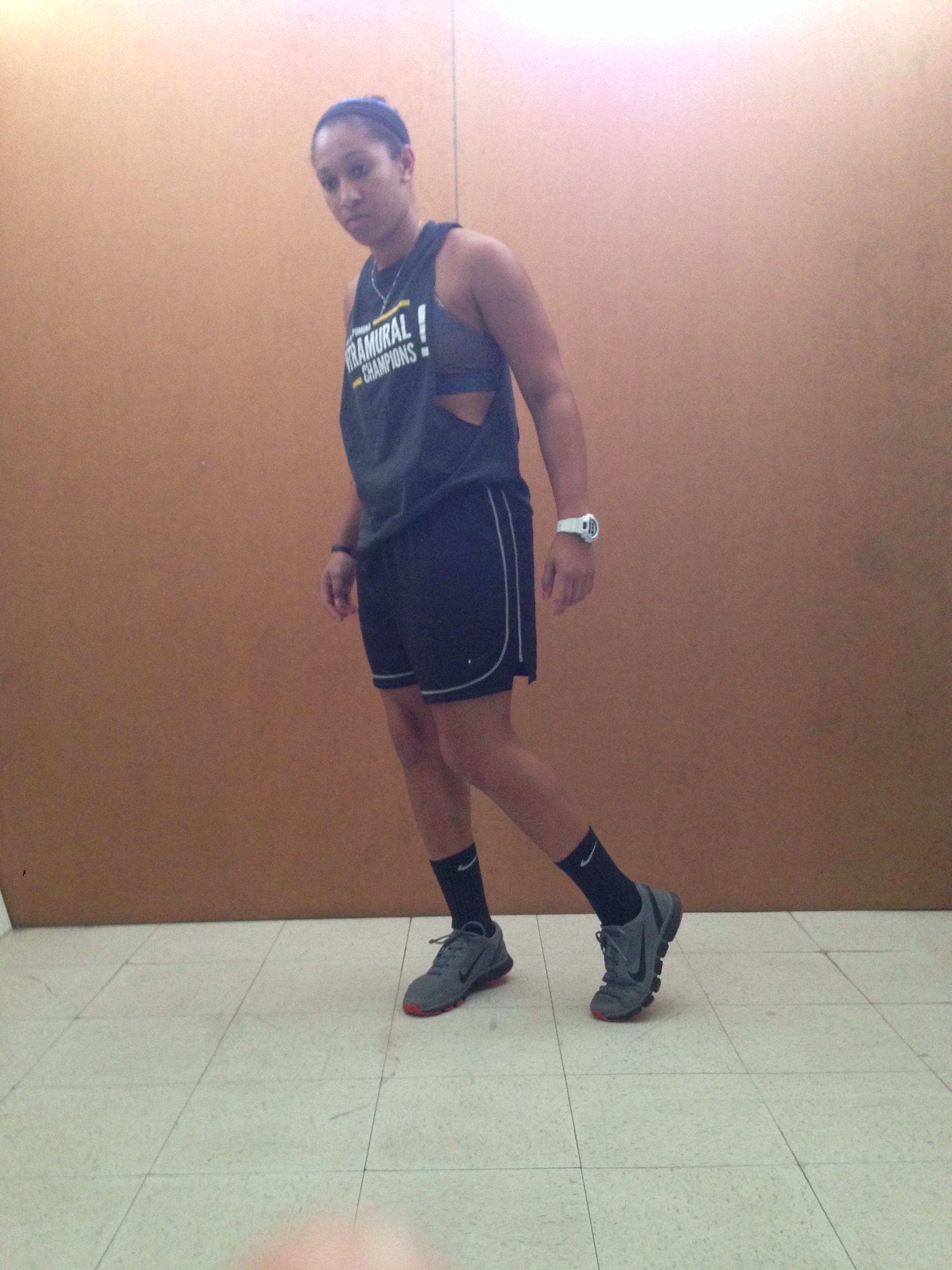 Females are more succeptable to acetabulum labrum tears due to their unique pelvic anatomy.